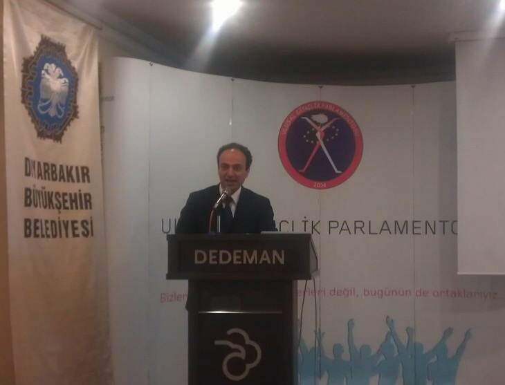 Photo of Osman Baydemir, former mayor of the Diyarbakır Metropolitan Municipality